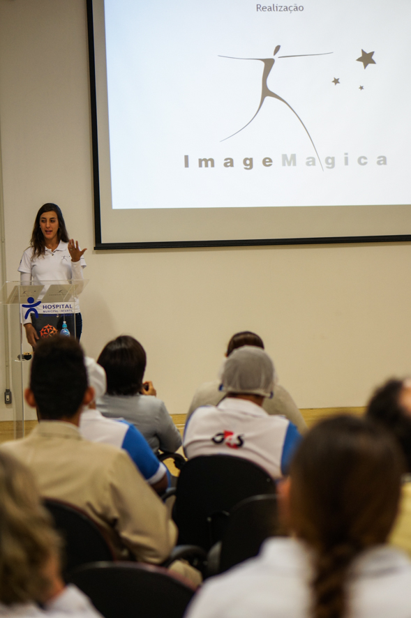 The Health and Culture program is done inside hospitals, health centers, among others. In those places, everybody can turn into a photographer: from doctors, nurses, psychologists and cleaning staff to patients and their families. With a digital camera in their hands, they are invited to make a photo that represents caring: how they take care of others and how others treat them.